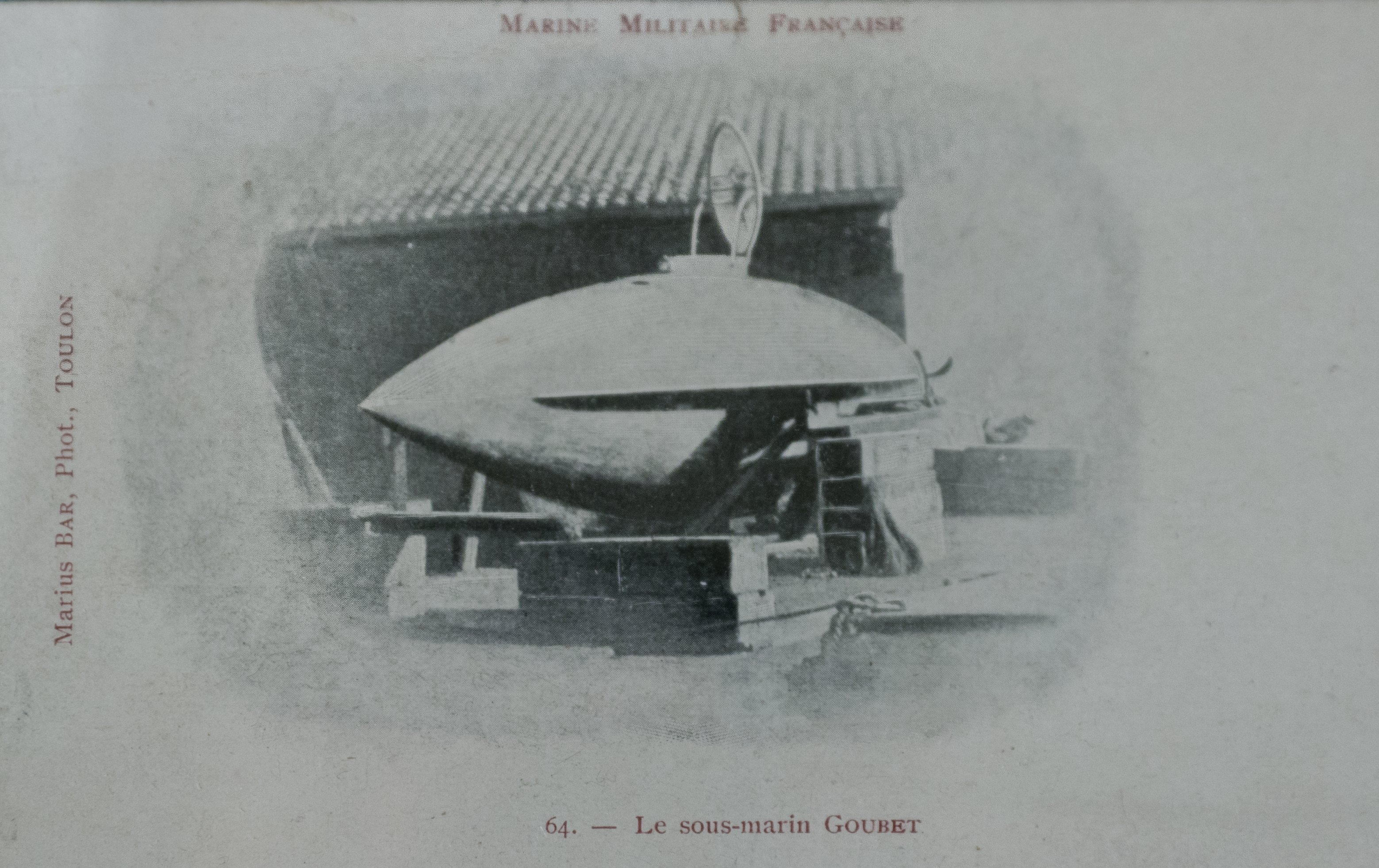 One of the first french submarines.